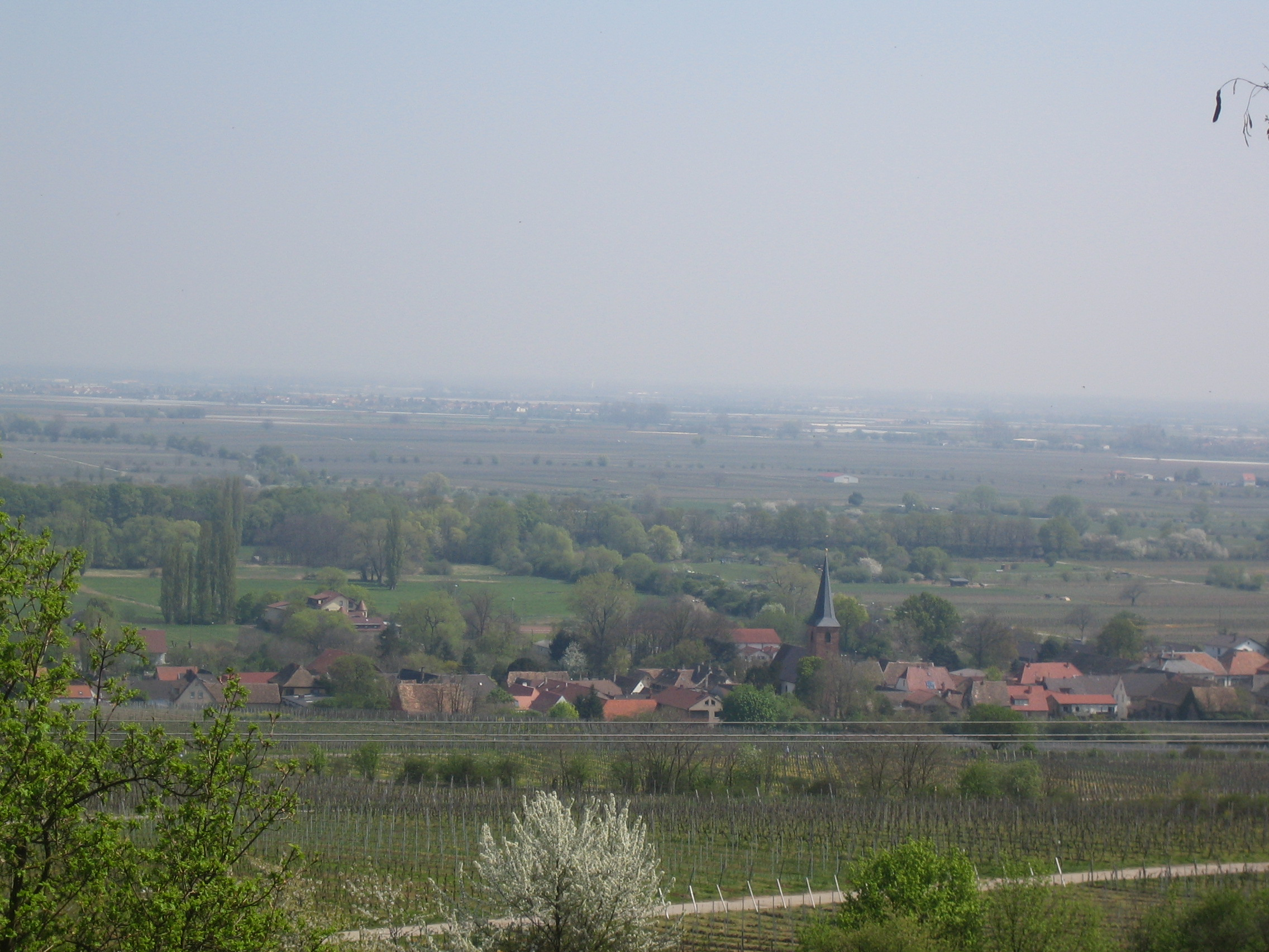 I took this photograph myself in the lunch hour in April 2007 and hereby release it into the public domaine to the maximum extent allowable within relevant jurisdictions